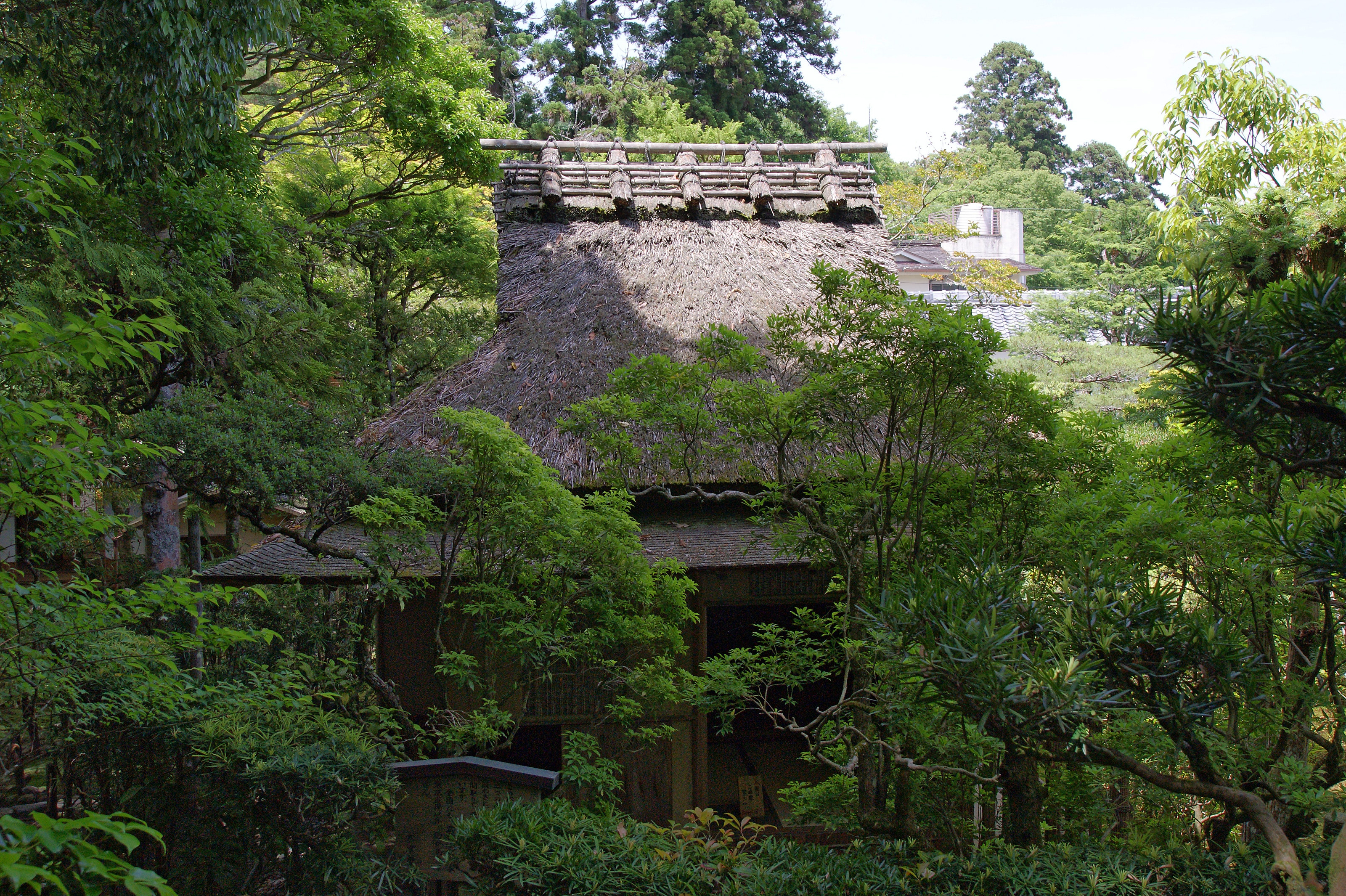 Old Chikurinin in Sakamoto, Otsu, Shiga prefecture, Japan